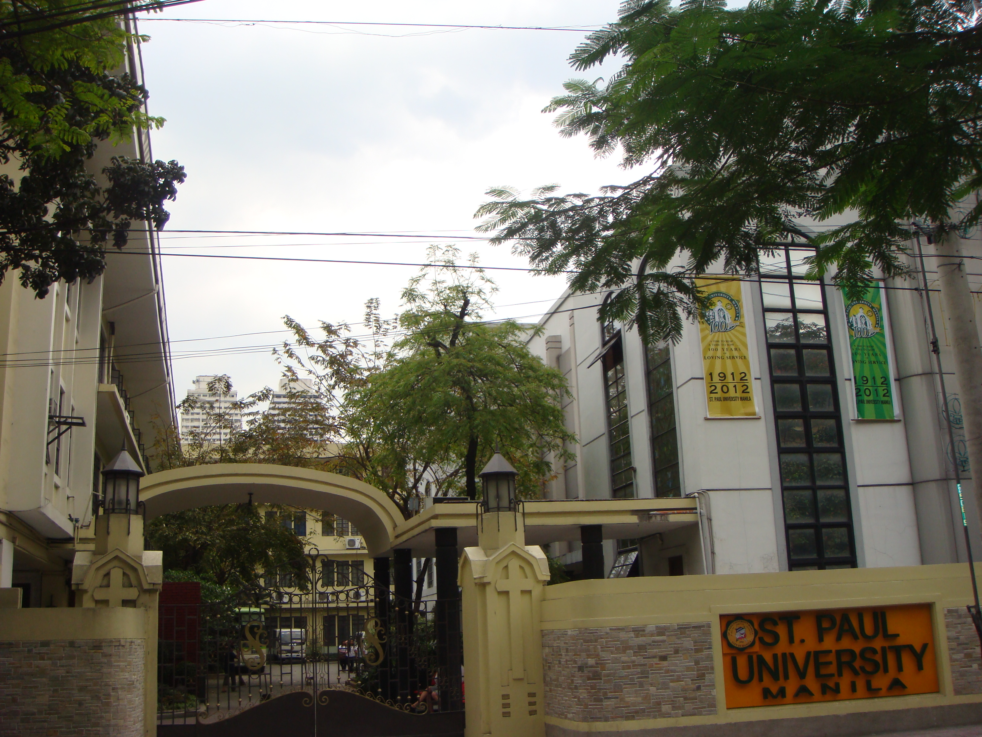 Saint Paul University Manila[1], 680 Pedro Gil St., Manila, Philippines